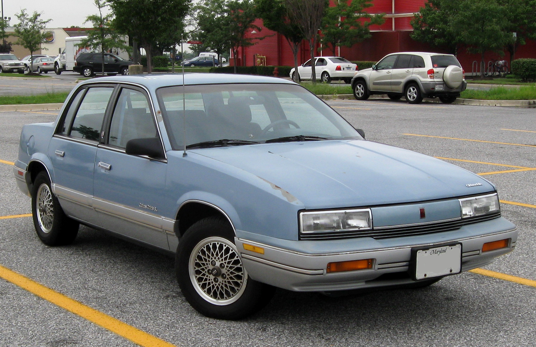 1989-1991 Oldsmobile Cutlass Calais SL sedan with FE3 sport suspension photographed in Laurel, Maryland, USA.